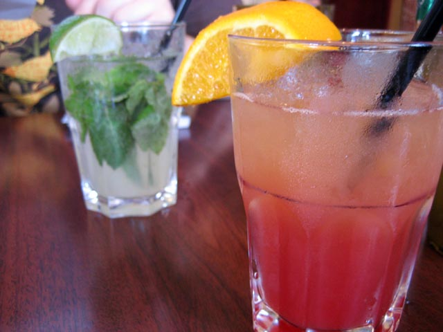 Cuban cocktails: "Lunch at Havana on Commercial Drive - mojito for Steve and rum punch for me. Arriba!" (commercial drive, Havana, Vancouver, mojito )